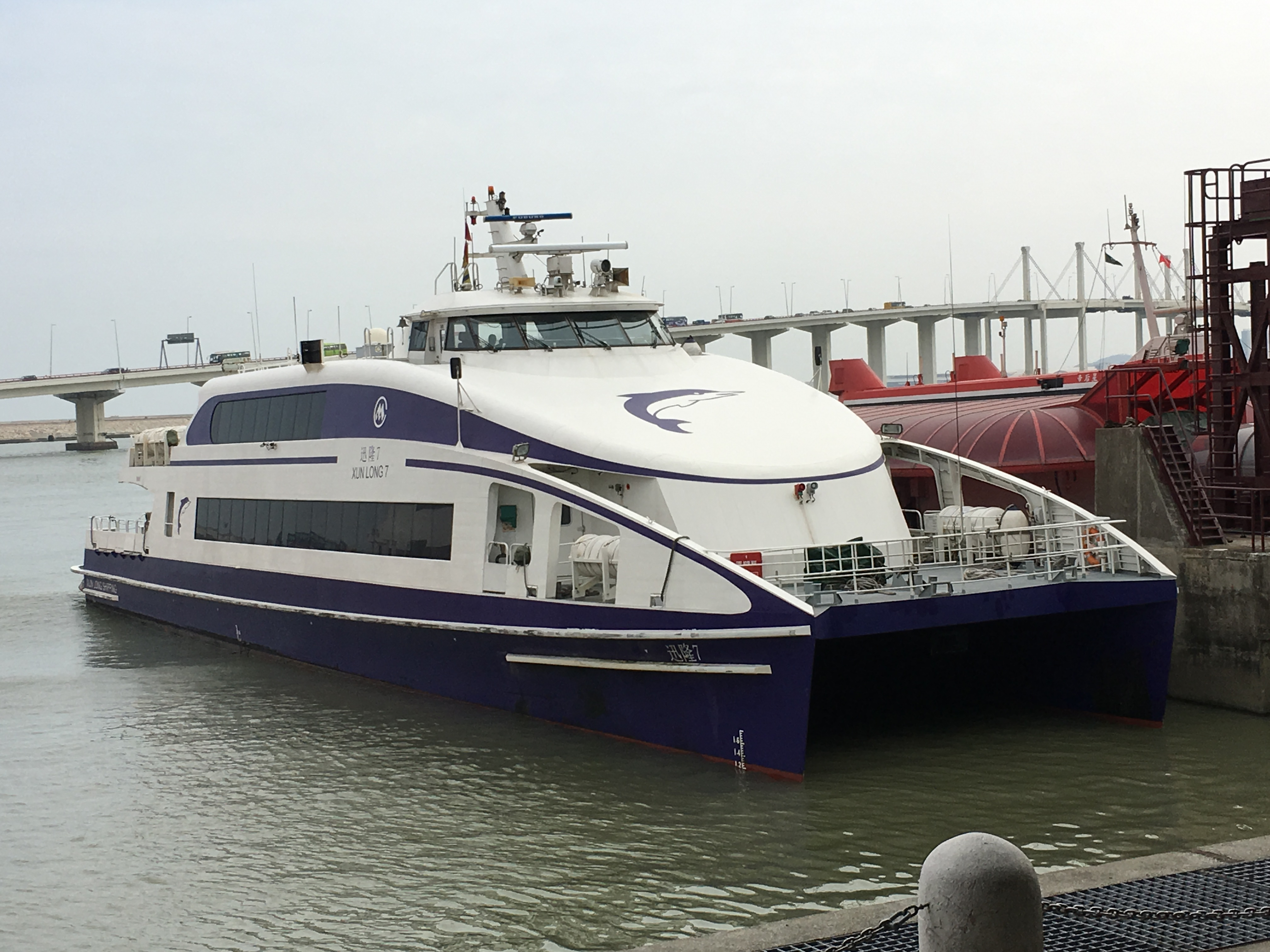 中文（香港）: This photo is taken in Macau(Outer Harbour).